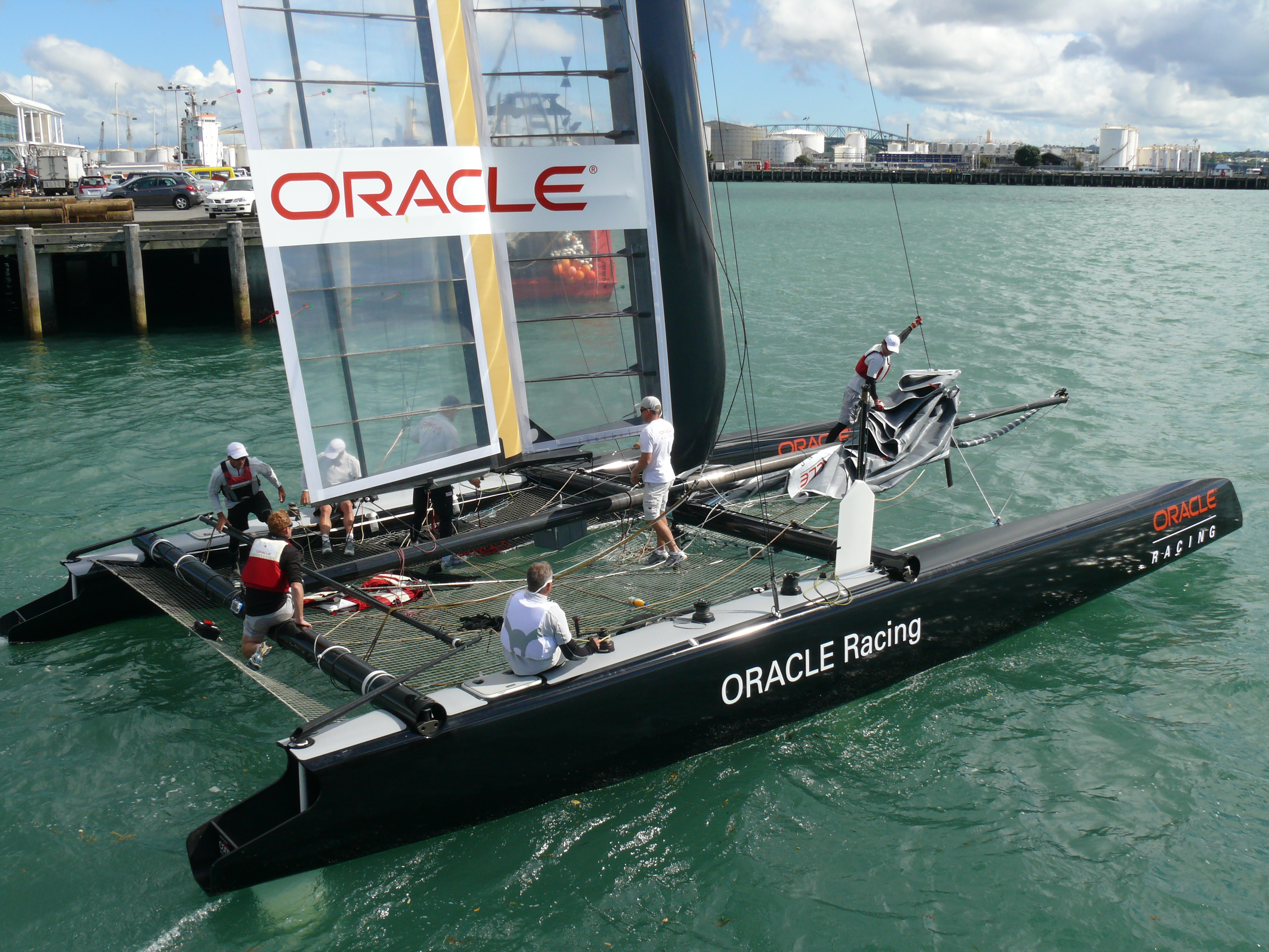 ORACLE Racing AC45